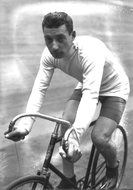 Picture of Giovanni Micheletto